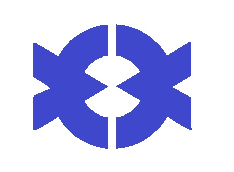 Flag of Daigo Ibaraki